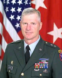 Official photo of Major General Galen B. Jackman as former commanding general of the Military District of Washington and Joint Force Headquarters-National Capital Region